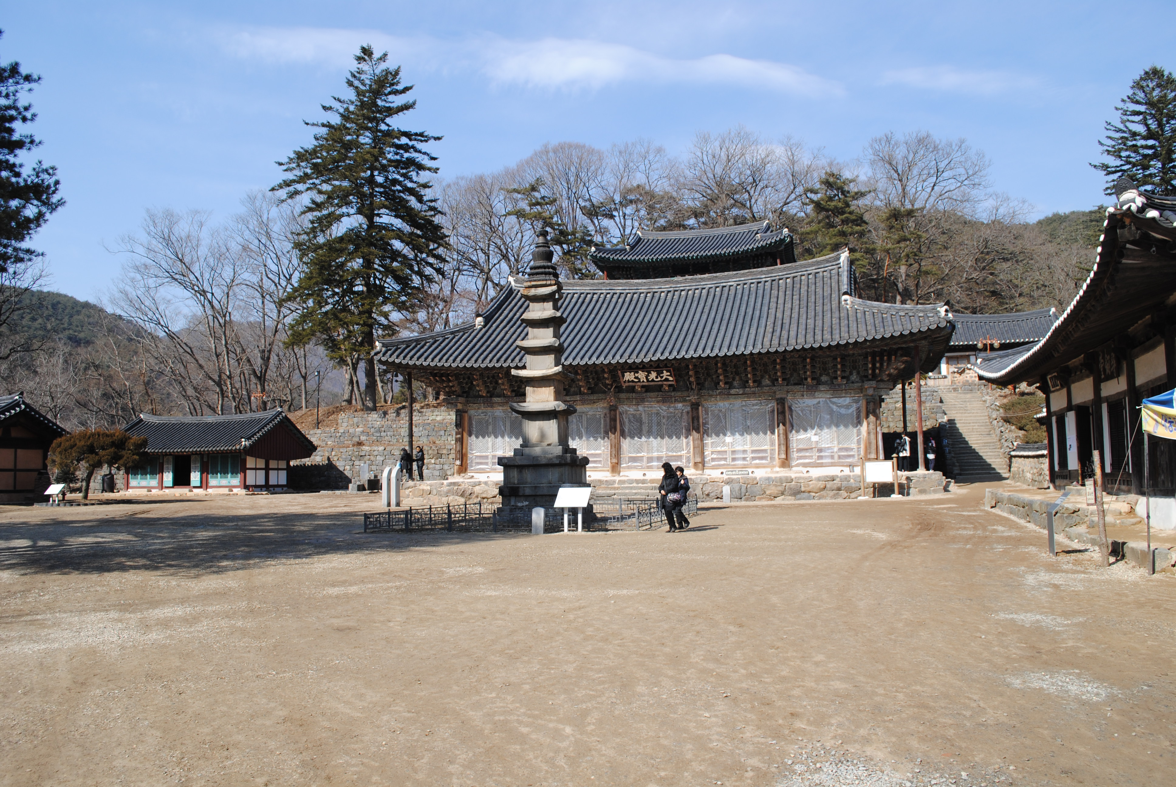 Magoksa, buddhist temple at Chungcheongnam-do, South Korea